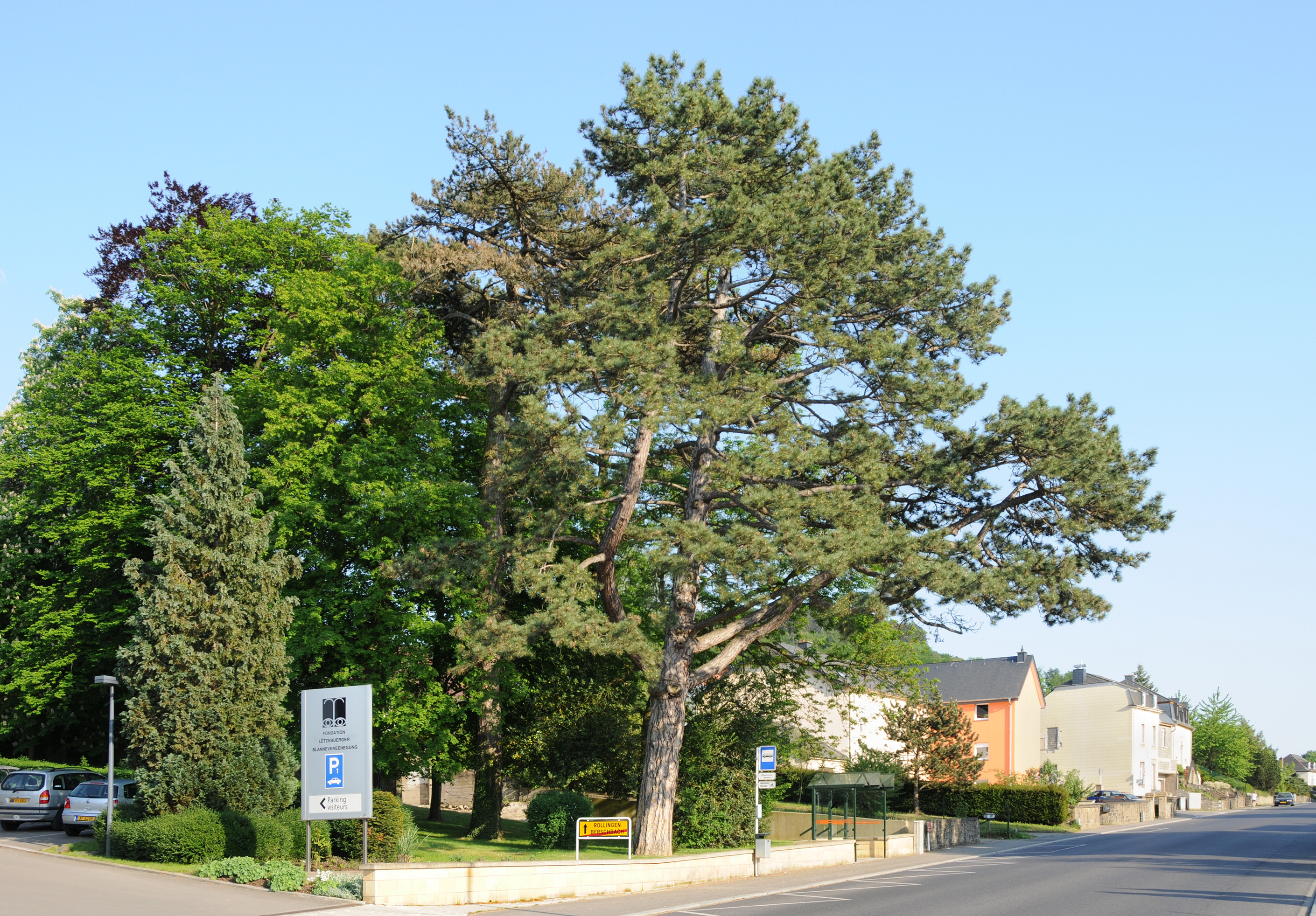 Black pine (Pinus nigra) in Berschbach commune of Mersch, Luxembourg. This pine tree was considered a remarkable tree and listed as National Monument (Inventaire supplémentaire des monuments nationaux) since March 29 1974. The tree was removed in 2015.